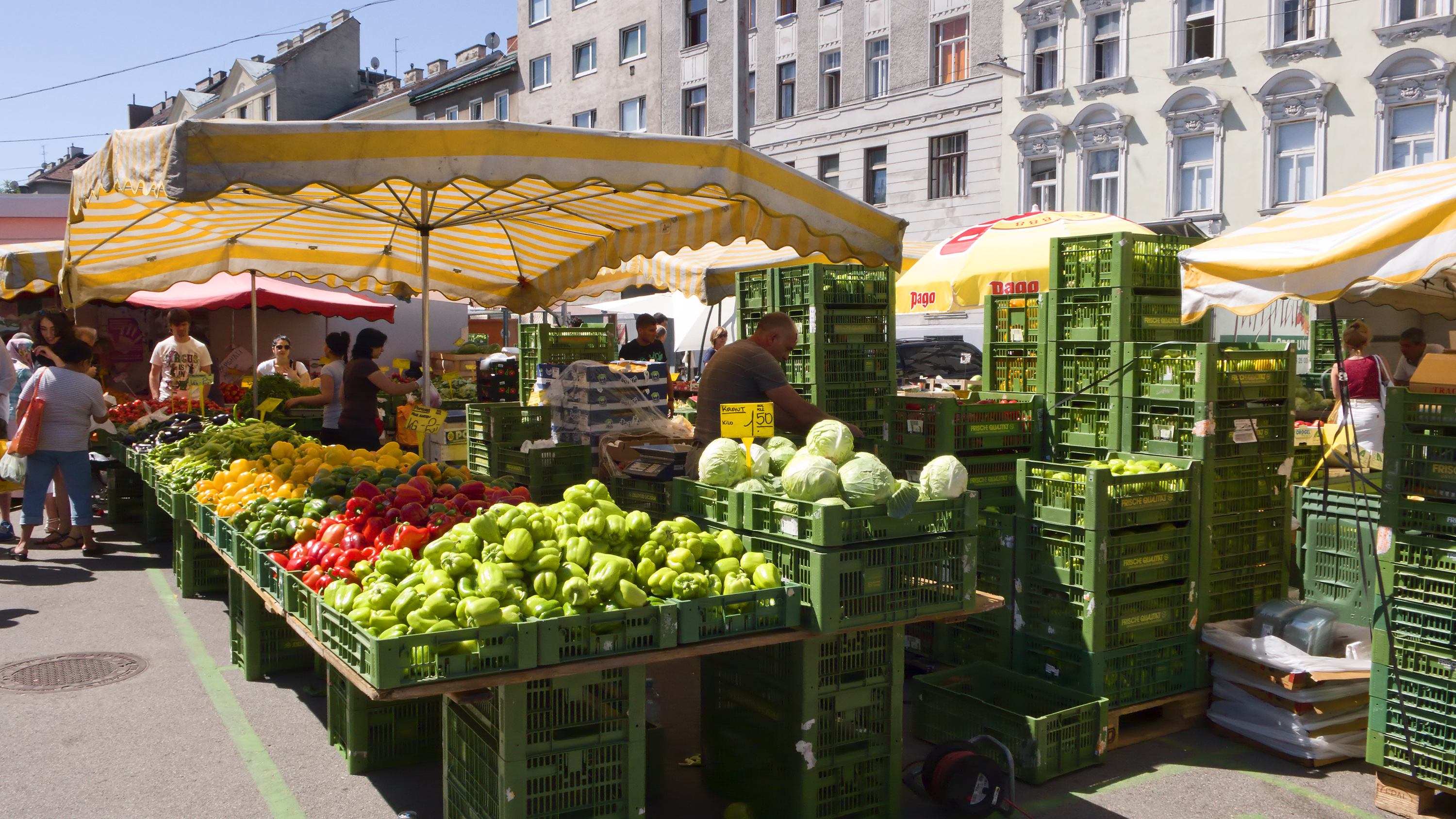 Market Hannovermarkt in Vienna Brigittenau